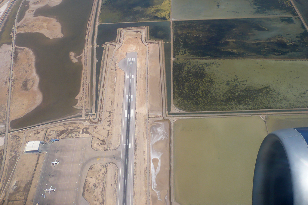 View of the Monastir Airport, this photo taken a few minutes after Take-off.